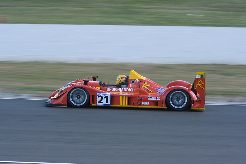 Radical SR9 at 1000km of Silverstone 2007